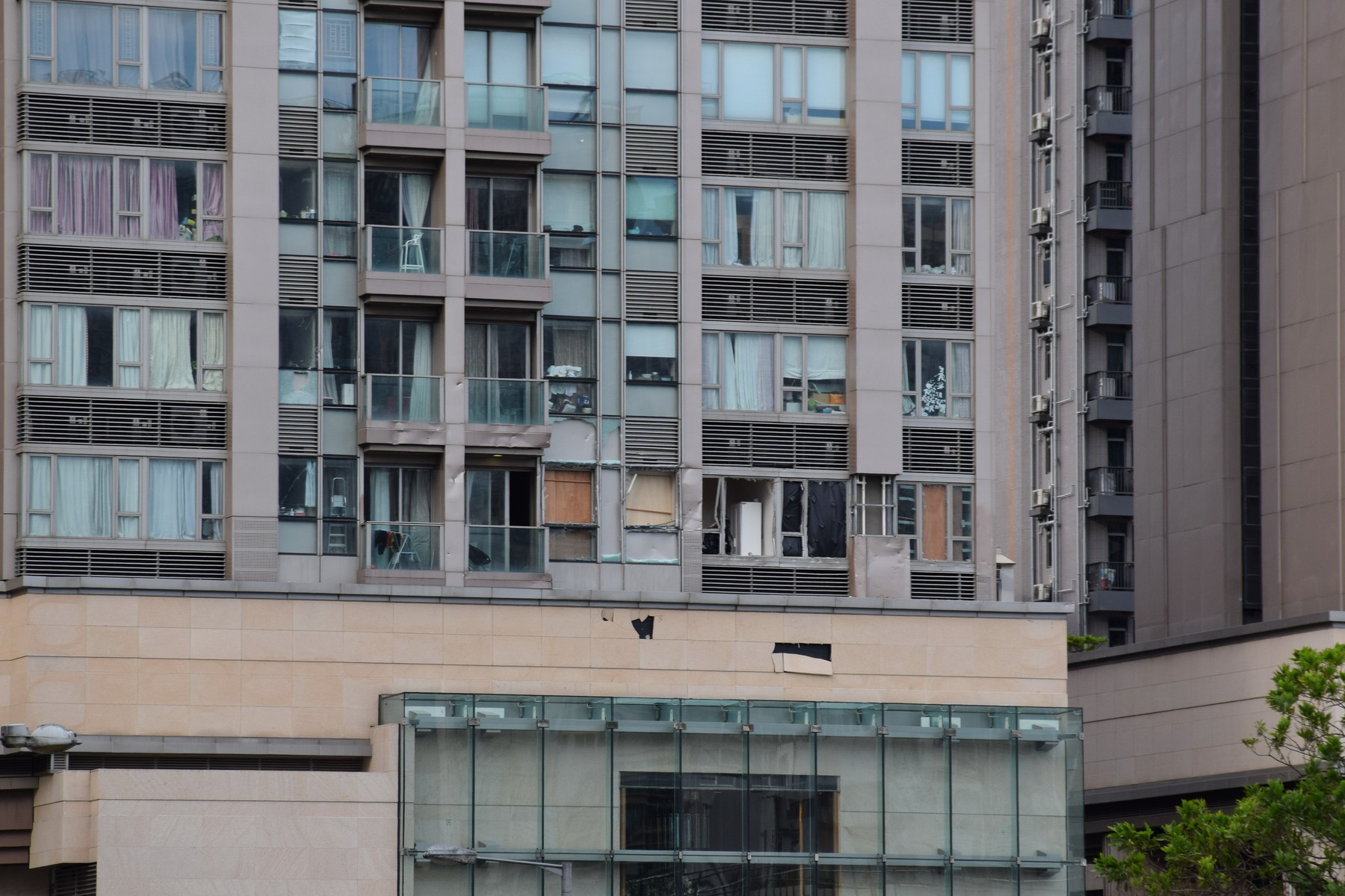 Chatham Gate, Hung Hom, after buffeting caused by Severe Typhoon Hato.